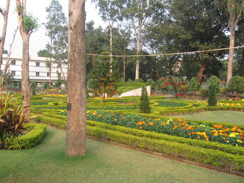 The garden of the National Institute of Technology, Durgapur, in Durgapur, West Bengal, India.